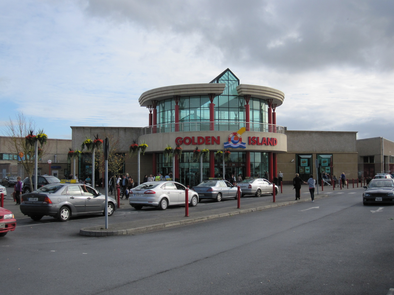 Photo of Golden Island Shopping Centre entrance